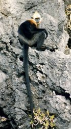 White-headed langur in natural habitat